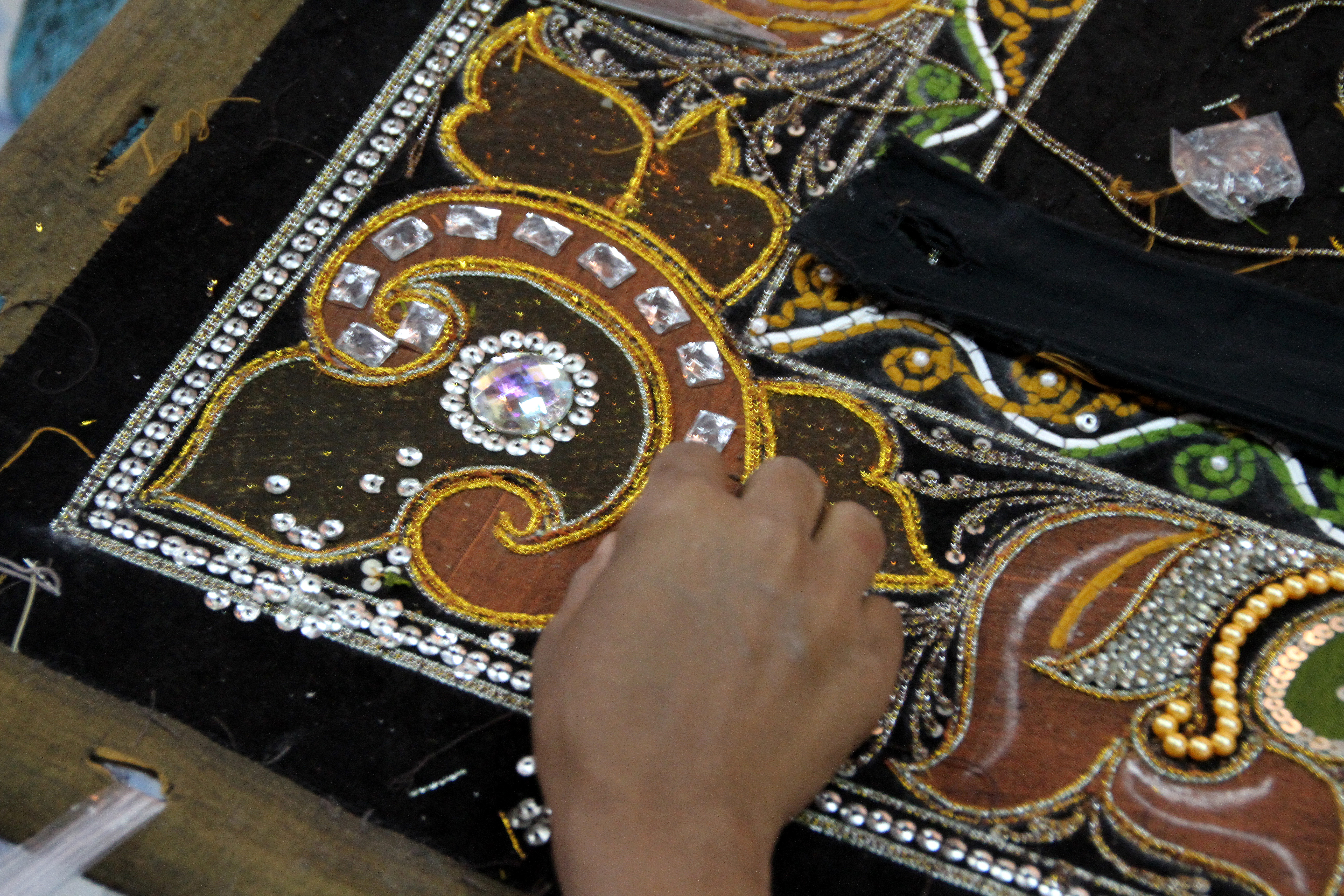 Embroidering at Mandalay in Myanmar.